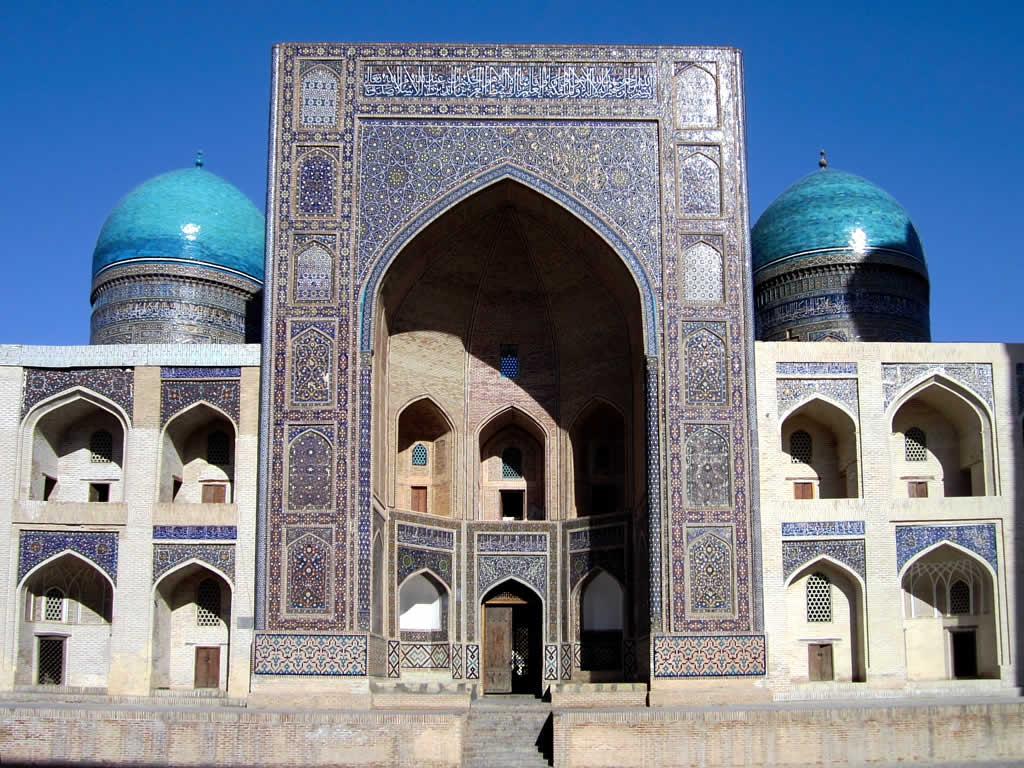 Iwan and tiled domes of the 16th century Mir-i-Arab madressa — in Bukhara, Uzbekistan, It remains a working Islamic school.